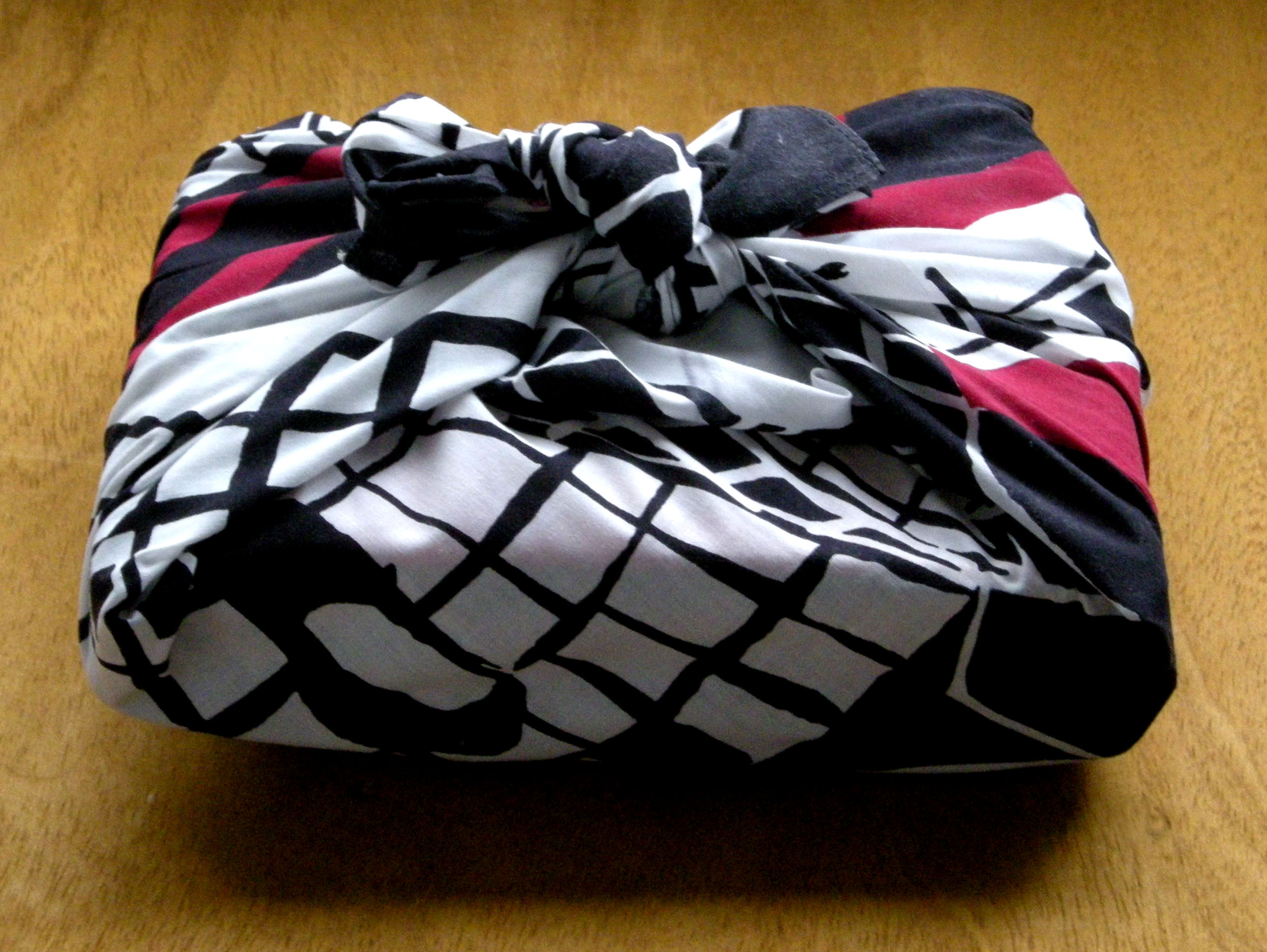 Furoshiki designed by Friedensreich Hundertwasser for 'Fernwärme Wien' AG. Size of the piece of cloth is 90×90 cm.